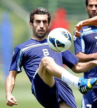 Mojtaba Jabbari